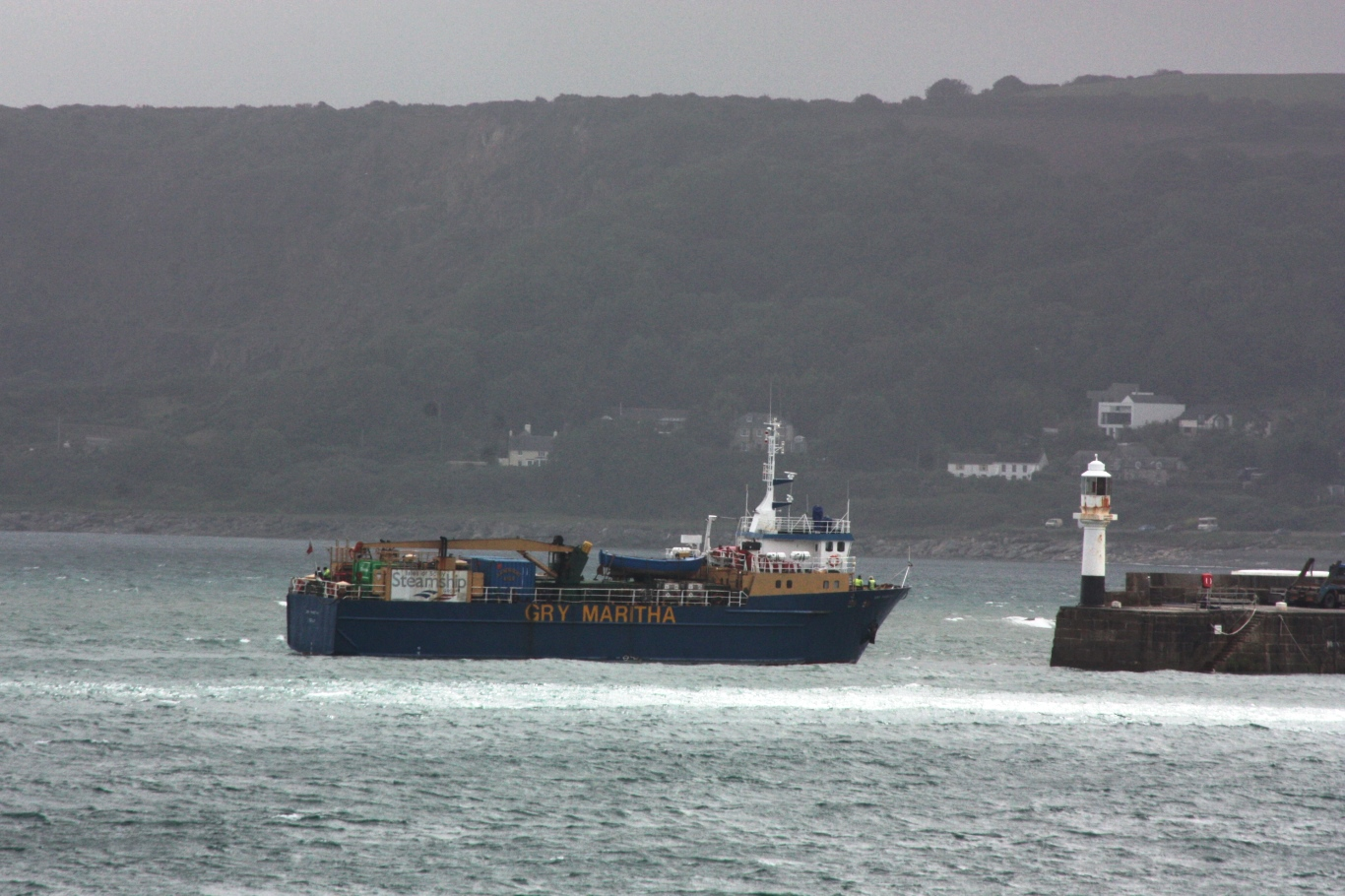 The motor vessel Gry maritha entering Penzance harbour. It is a freight carrier operated by the Isles of Scilly Steamship Company.